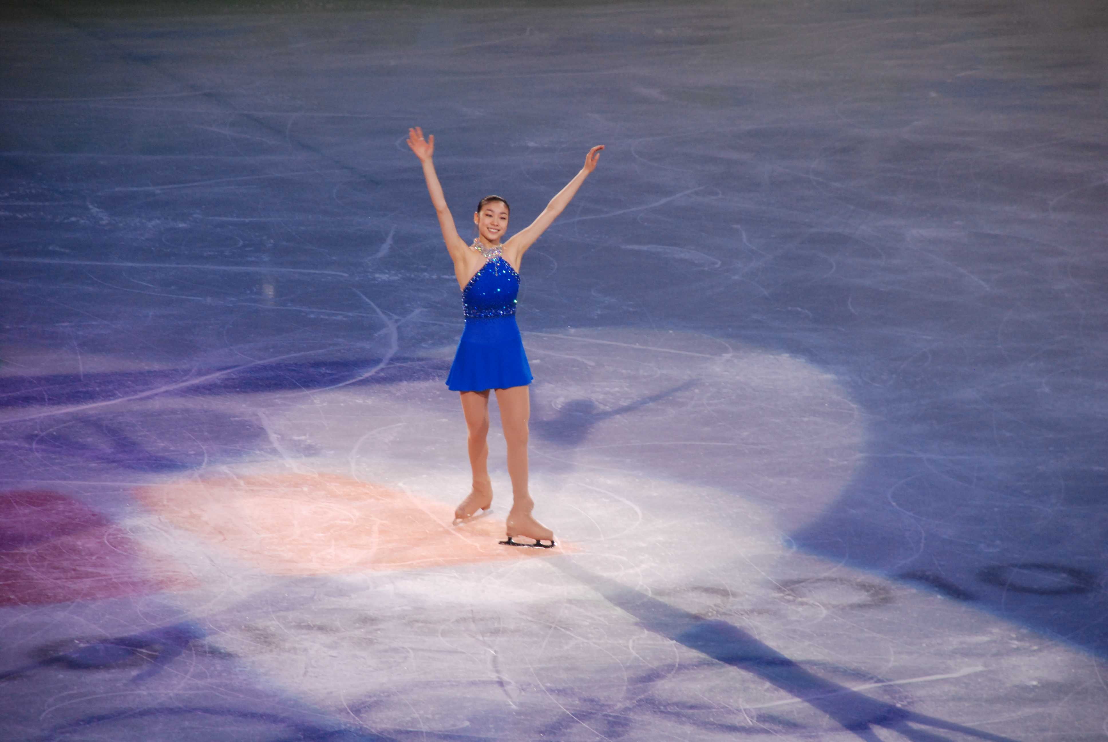 Kim Yu-Na in the Pacific Coliseum, Vancouver, thursday february 25th, after winning the ladie's figure skating competition of the 2010 Olympic winter Games.